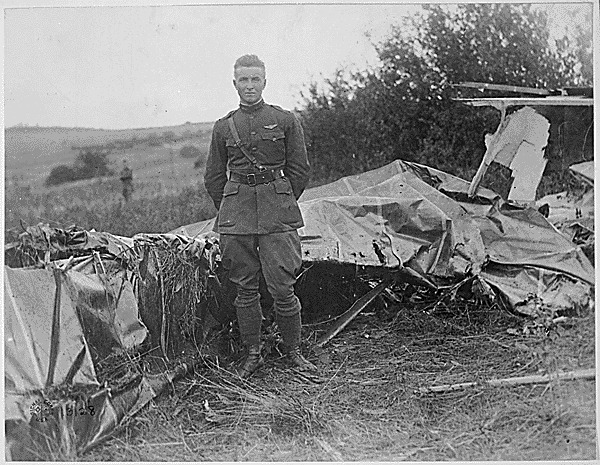 Lieutenant Frank Luke, who is running Lieutenant Eddie Rickenbacker a spirited race for the honor of being called the "ACE" of the American fliers overseas. Lieutenant Luke brought down three German observation balloons in thirty five minutes., 1918